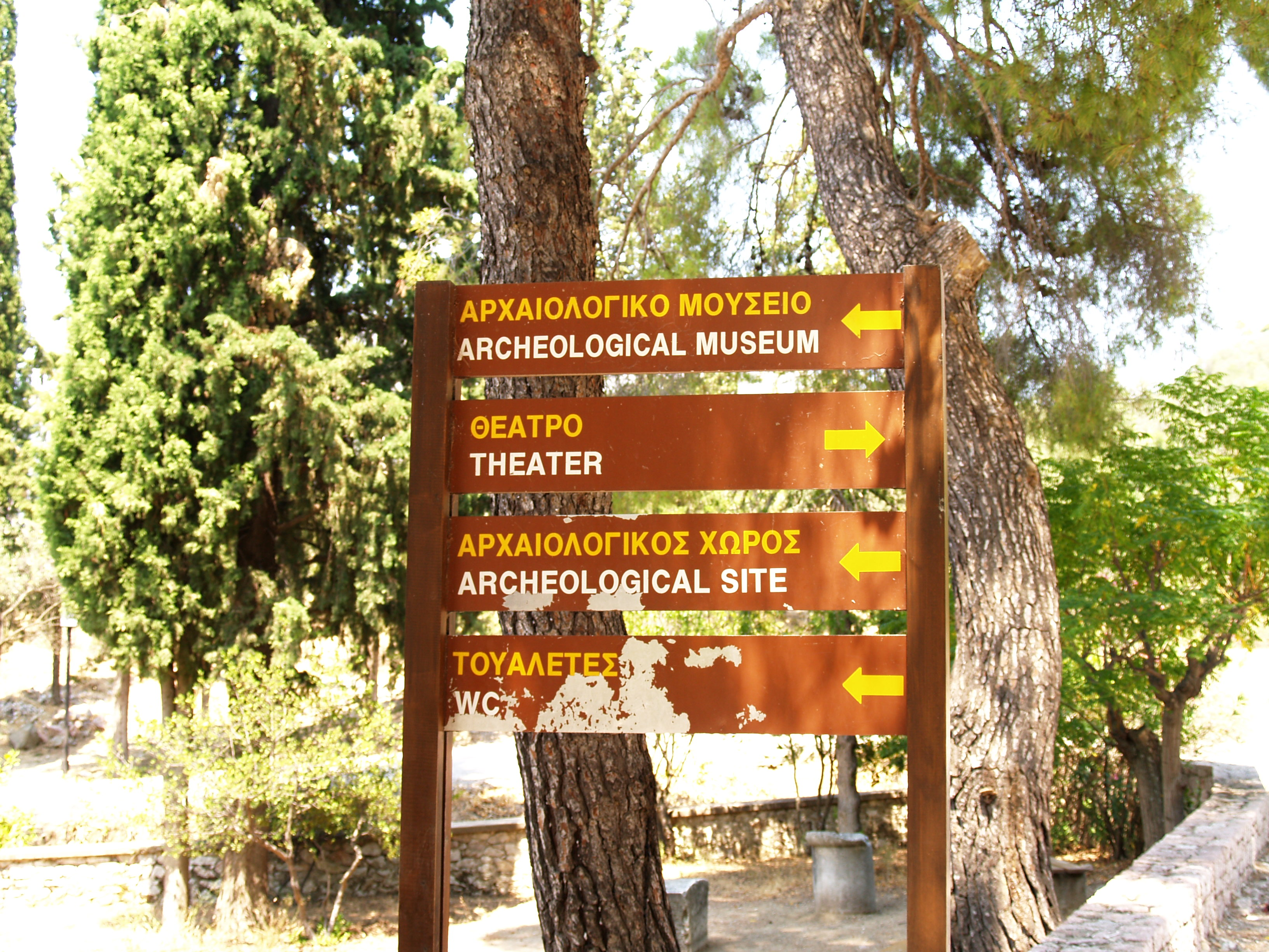 Epidauras, Greece